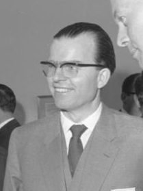 Title: Bonn, Empfang für Informationsminister von Irak Extra information: Mitte: Karl-Günther von Hase People in the image: Hase, Karl-Günther von: Bundespressechef, Staatssekretär im Verteidigungsministerium, Bundesrepublik Deutschland Factual corrections and alternative descriptions are encouraged separately from the original description. Additionally errors can be reported at this page to inform the Bundesarchiv. Original historic description: Essen für den irakischen Informationsminister General Abdul Karim Farhan mit StS. von Hase im Hotel Königshof, Bonn